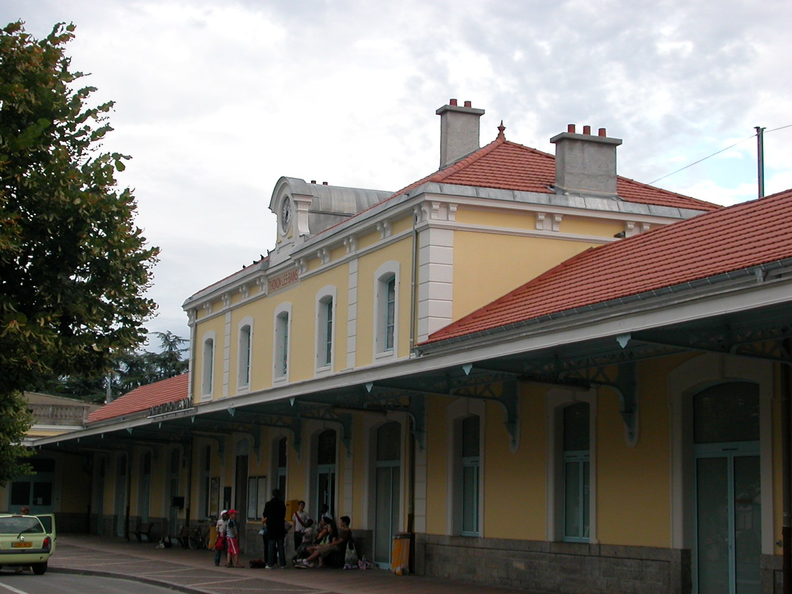 General view of the station of Thonon-les-Bains.